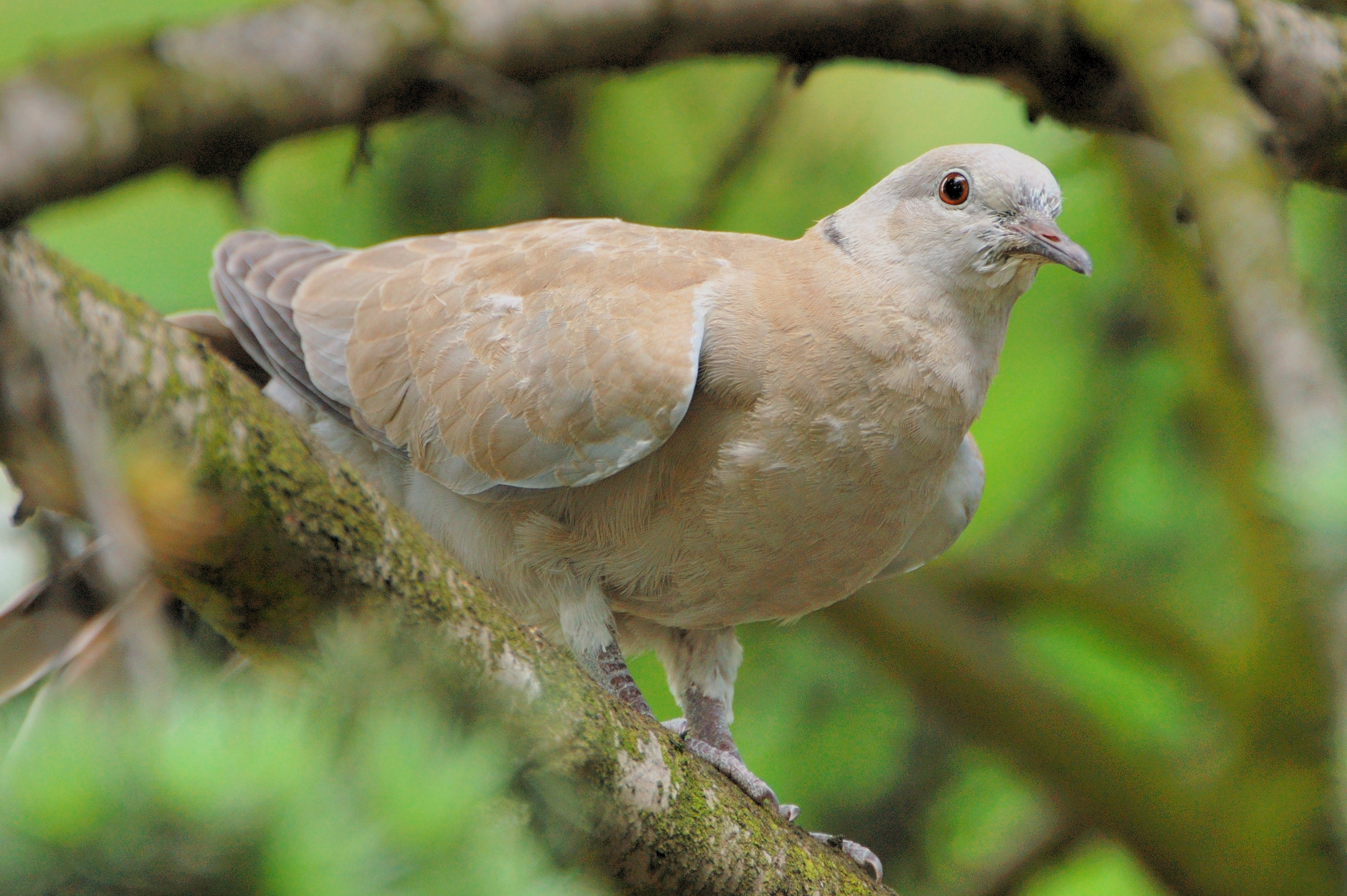 An Eurasian Collared Dove standing on a branch.